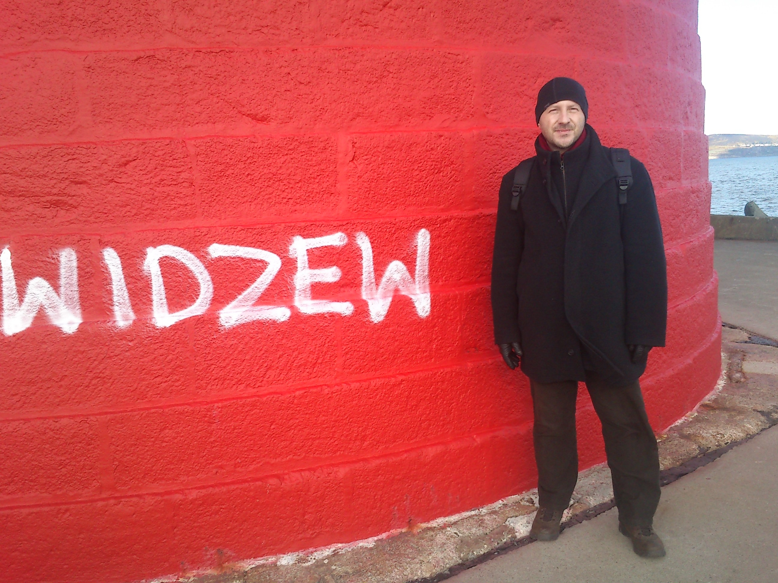 T Kamusella, Feb 2012, Poolbeg Lighthouse, Great South Wall, Dublin Port, Ireland